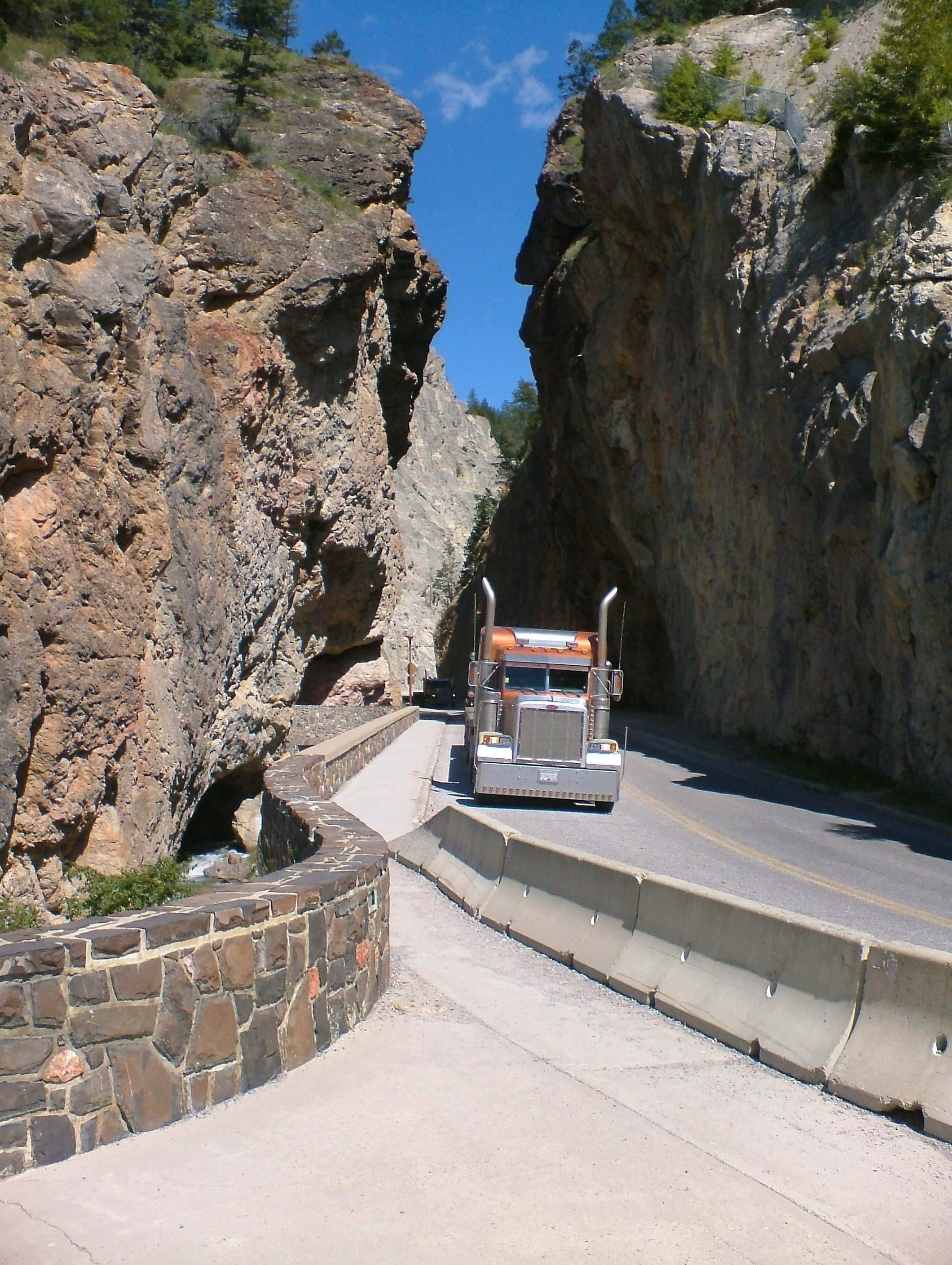 Author's own picture